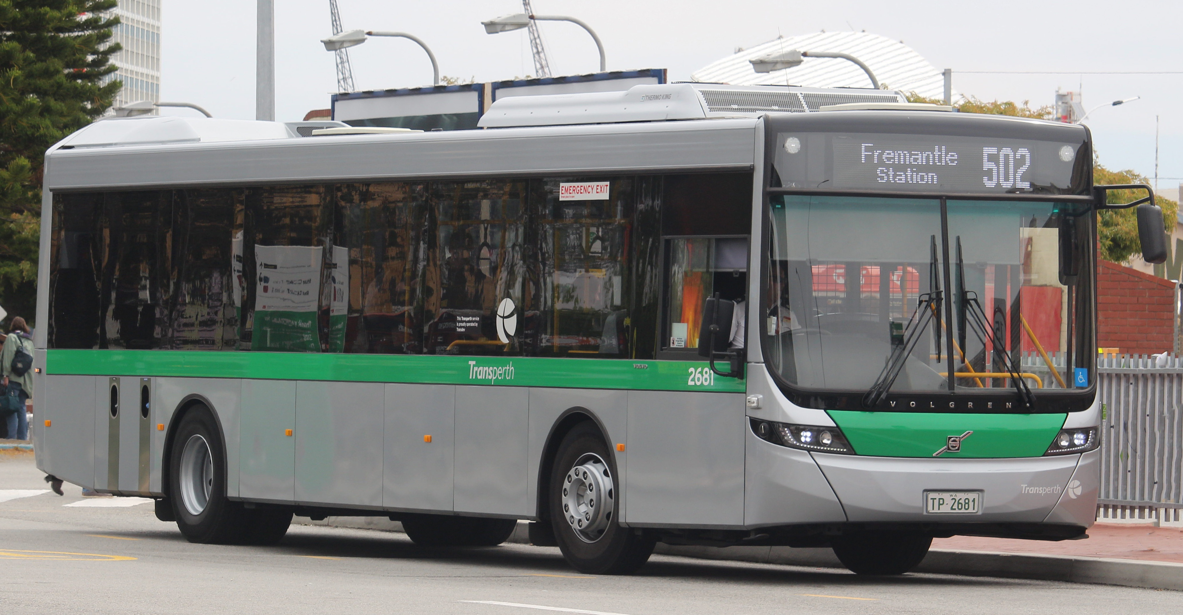 Volgren Optimus bodied Volvo B7RLE diesel (#2681, TP2681, built: 2018) operating under Transperth (Transdev) finishing up a route 502.